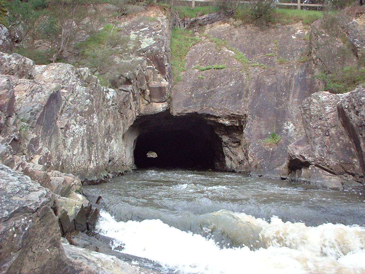 Pound bend tunnel in Warrandyte, Victoria, Australia. Created by gold miners during the gold rush to divert the Yarra river. Photo taken by me 20040114.